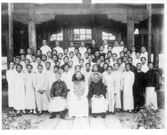 Boxer Rebellion Indemnity Scholarship recipients of 1910